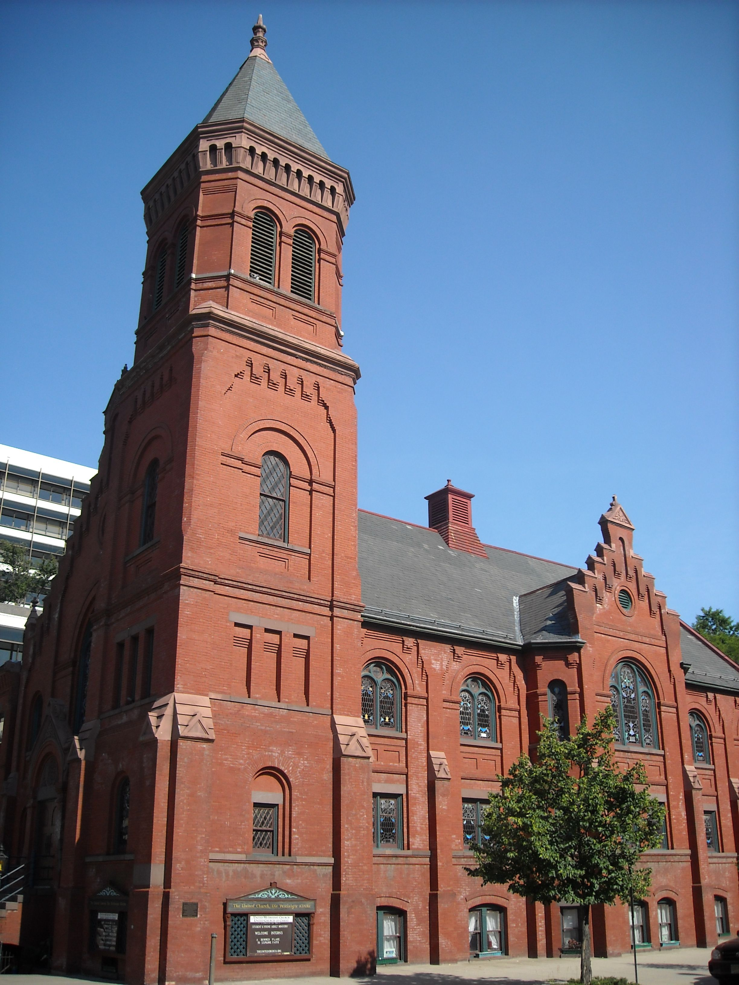 Concordia German Evangelical Church and Rectory, a building in Washington, D.C. that is listed on the National Register of Historic Places. The building is now known as the United Church.